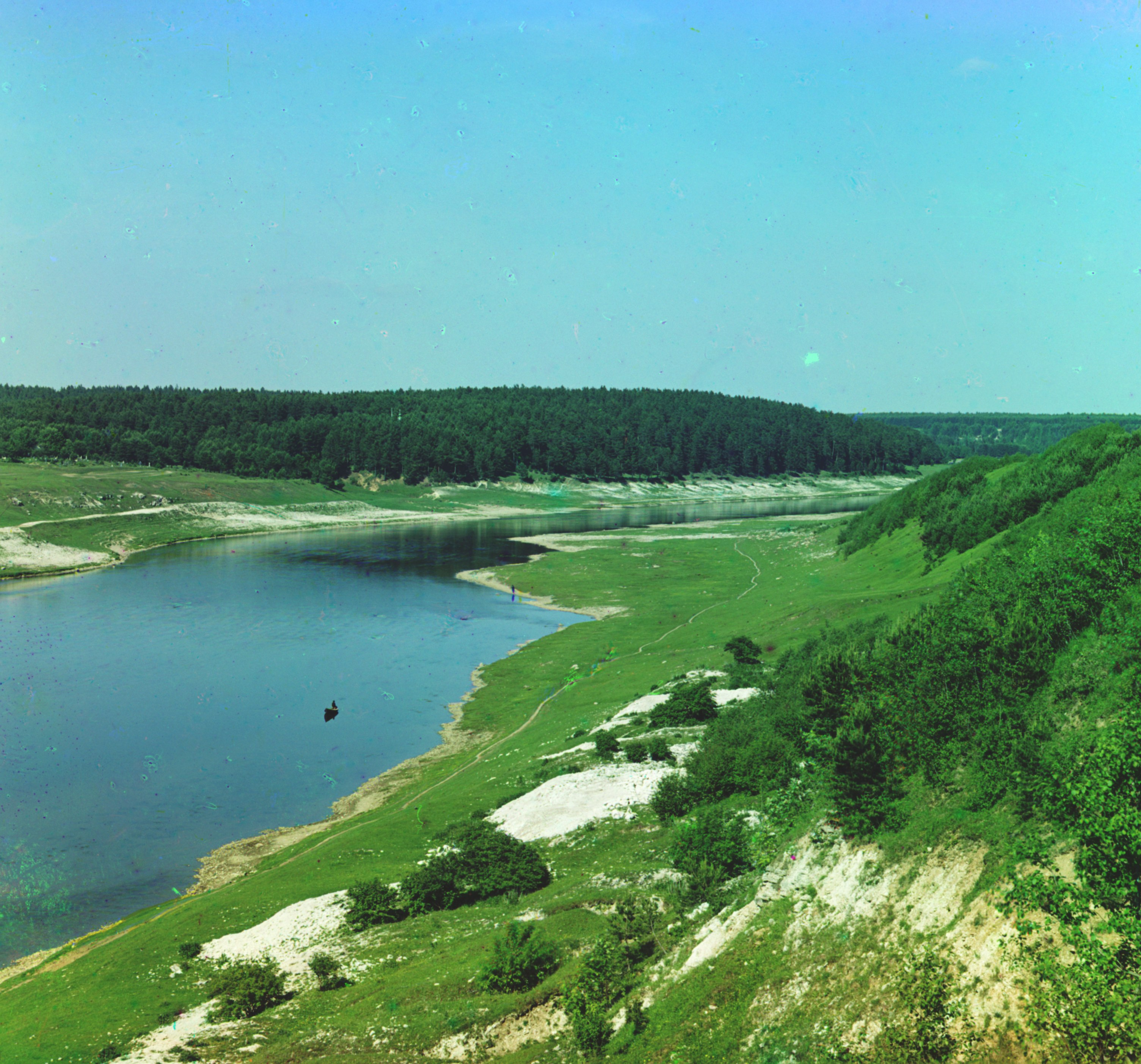 Photo probably shows the view from Polustovaia Hill to the Volga near Zubtsov. (Source for this identification: Yuri Krasilnikov in 2008, from the Web site Khramy Rossii (Churches of Russia)). 1 negative (3 frames): glass, b&w, three-color separation ; 24 × 9 cm.